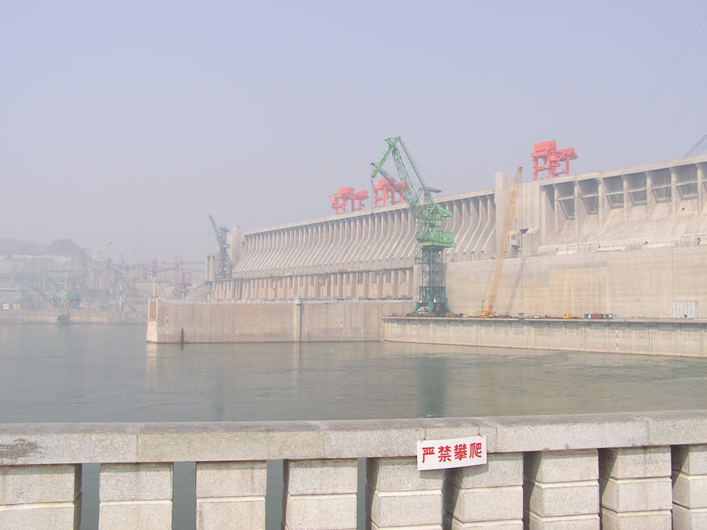 View of Three Gorges Dam face from the Yangtze River bank. Photo taken Richard Chambers, AAA Yangtze Sampler tour, May, 2004. See photo of Three Gorges Dam from tourist overlook which provides a birds eye view of the dam. See Three Gorges Dam locks for an image from that same tourist overlook showing the locks being built to allow the large amounts of river shipping to bypass the dam. The Three Gorges Dam project is a huge project in China to put a dam across the Yangtze River (Chang Jiang).